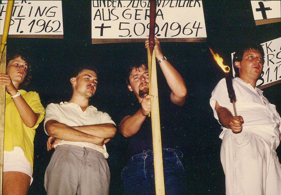 Participants of the 25th Anniversary of the Berlin Wall in August, 1986 remember those who perished while trying to escape to West Berlin. Photograph by Nancy Wong.